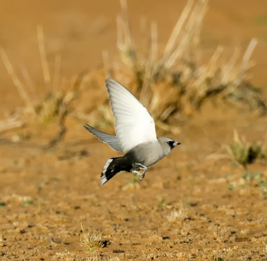 Love the woodies. They sit in the paddock, duck and dive chasing food. one of the most elegant flyers